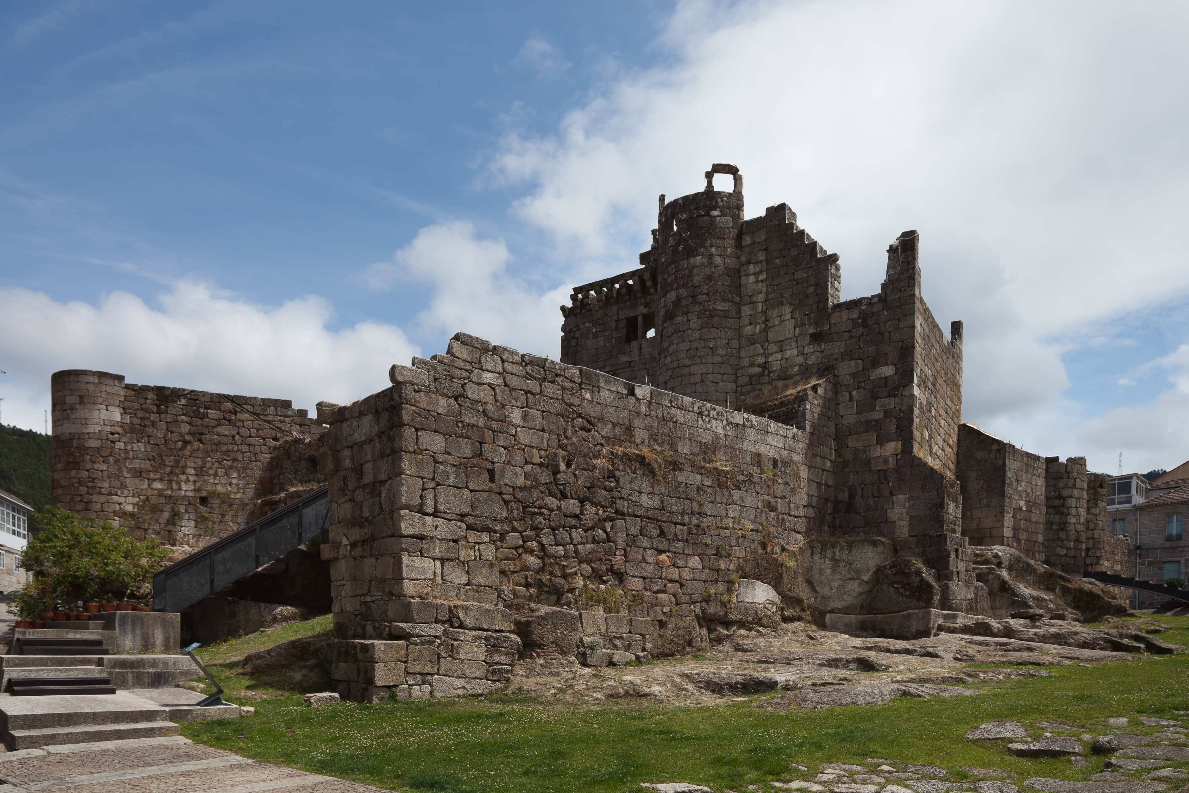 Castle of Ribadavia, Galicia (Spain)